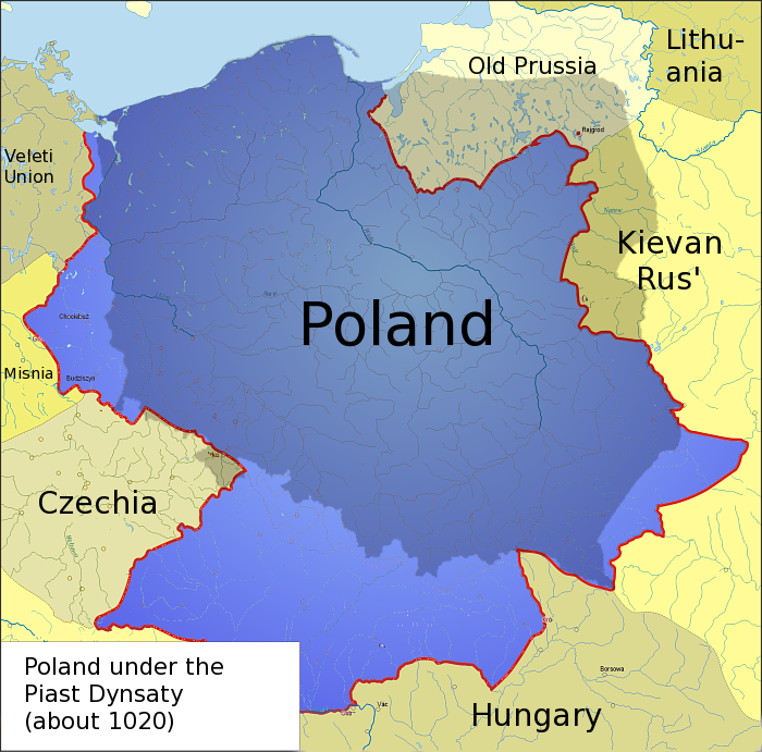 Poland today and in 1020